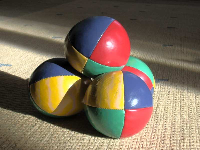 Juggling balls. Sample scene for HDRI (Tone mapped HDR image).